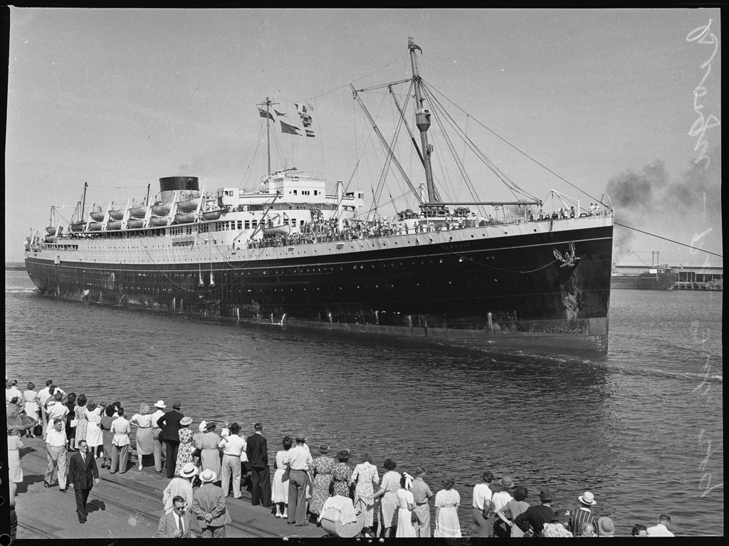 MV Georgic migrant transport ship, Australia, February 1949, from photographic negative, State Library of New South Wales ON 388/Box 005/Item 002